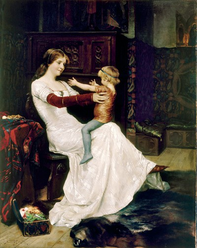 a fantasy painting. (Listed as "Mother and Child" on the web page this reproduction is downloaded from.